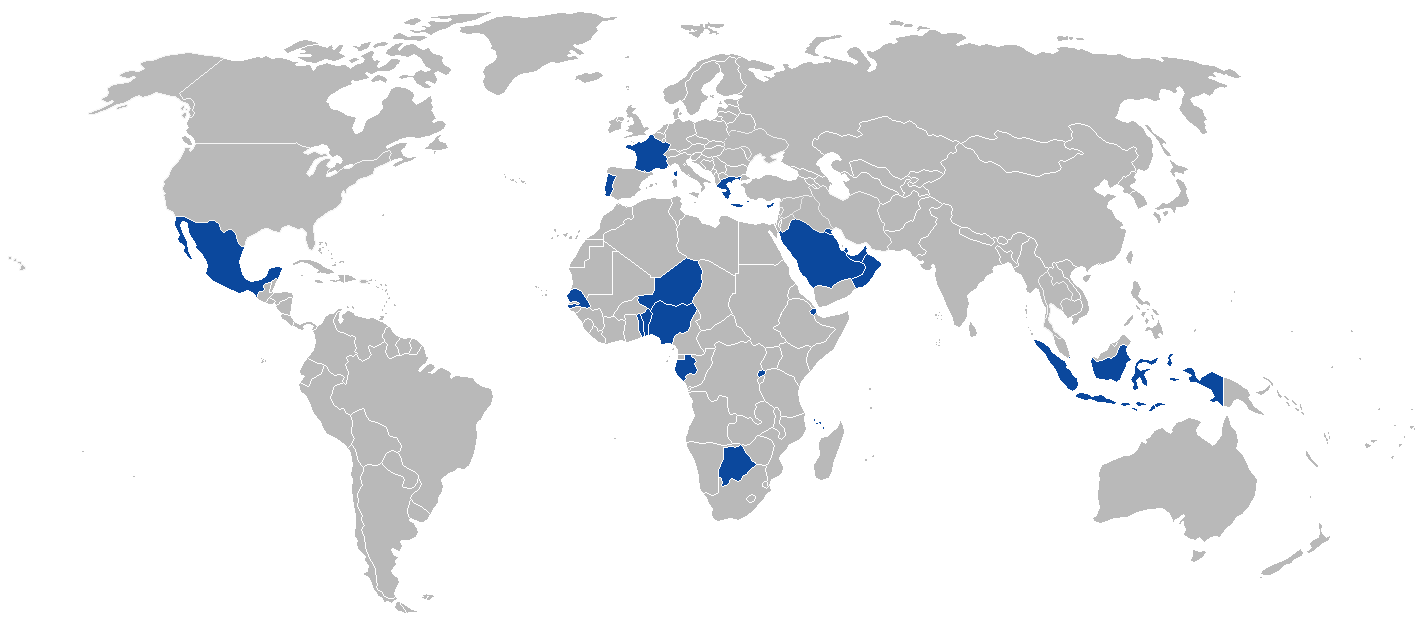 Operators of the Panhard VBL.